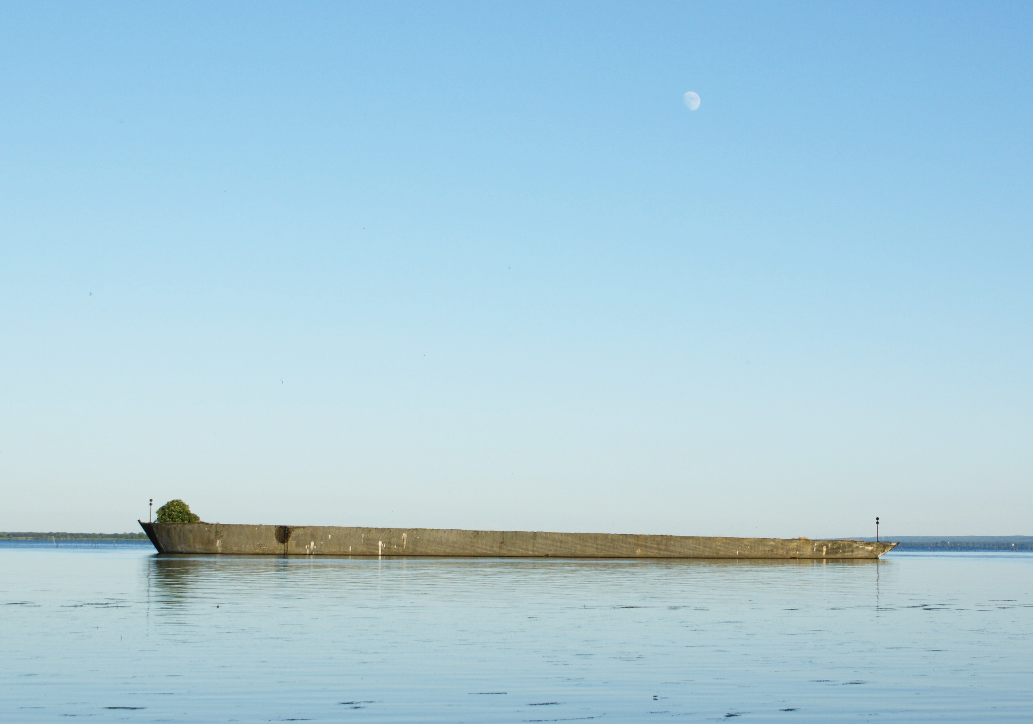 Hulk of German concrete ship "Urlich Finsterwalde" in the north part of Dabie See in Szczecin (NW Poland)